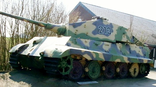 Tiger II preserved at La Gleize, Belgium.